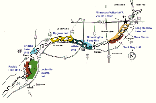 Map of the Minnesota Valley National Wildlife Refuge